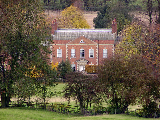 Horkstow Hall. Horkstow Hall described by Pevsner as "..A mid Georgian builder's job (1776 and later) with some pattern-book pretensions.." "..The important c4 Roman mosaic pavement with a chariot race, discovered in the park in 1796, is now in Hull Museum. It was part of a very large villa.". Photo taken from the DEFRA Open Access land just West of Middlegate Road. For a picture of the mosaic see 235236.